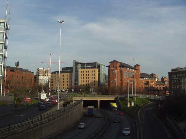 Nuffield Hospital, Leeds. The central building is the Nuffield Hospital, behind it out of view is Leeds General Infirmary. Below it is the Inner Ring Road. Viewed looking north from the footbridge over the Inner Ring Road by the International Pool. Look carefully at the dot in the sky above the crane. It is the Yorkshire Air Ambulance approaching to land on the roof of Leeds General Infirmary.